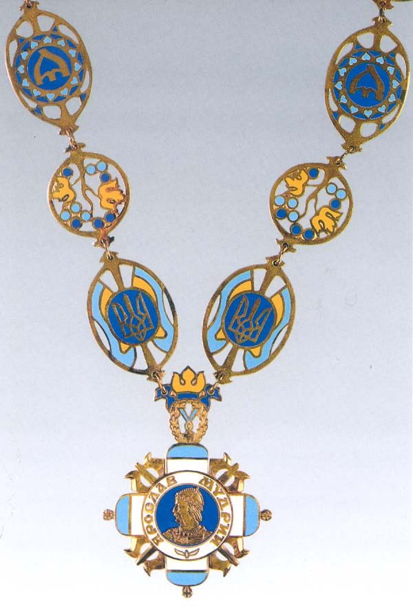 Order of the Yaroslav the Great